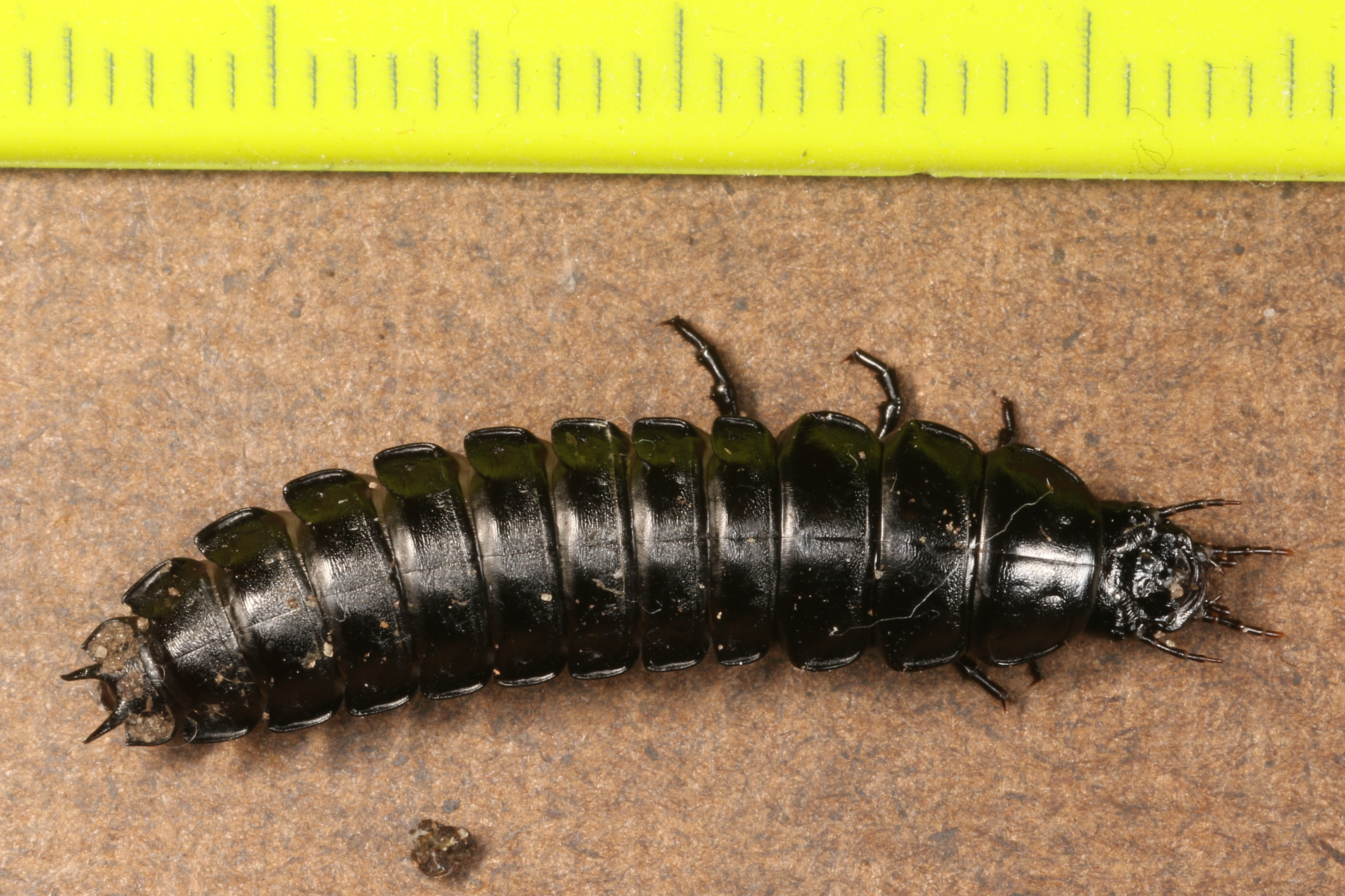 Carabidae sp., larvae, found in top layer of soil below compost bag, Søborg, Denmark, 9 April 2016